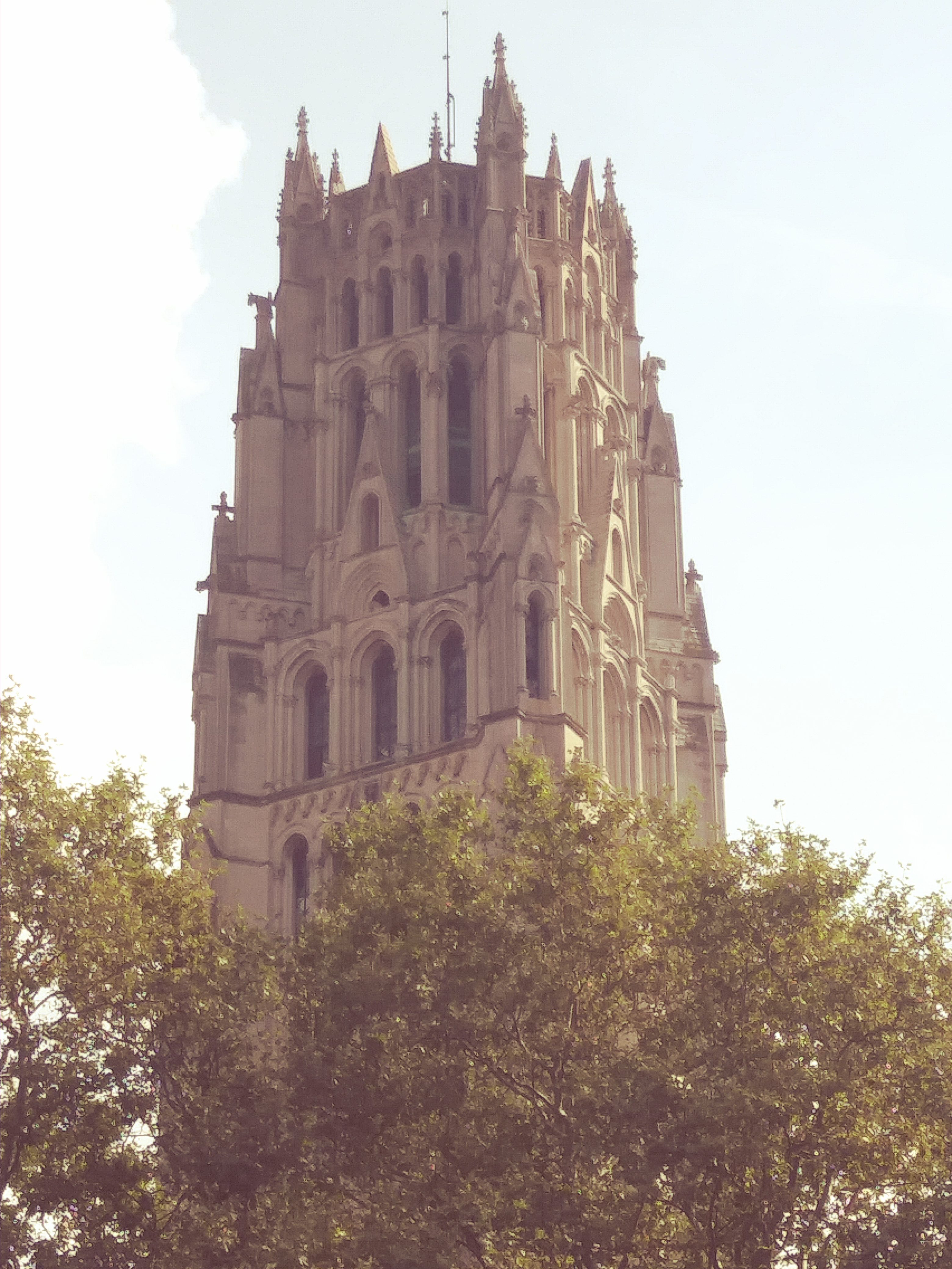 Tower of Riverside Church seen from the plaza in in front of Grant's Tomb, August 17 2019